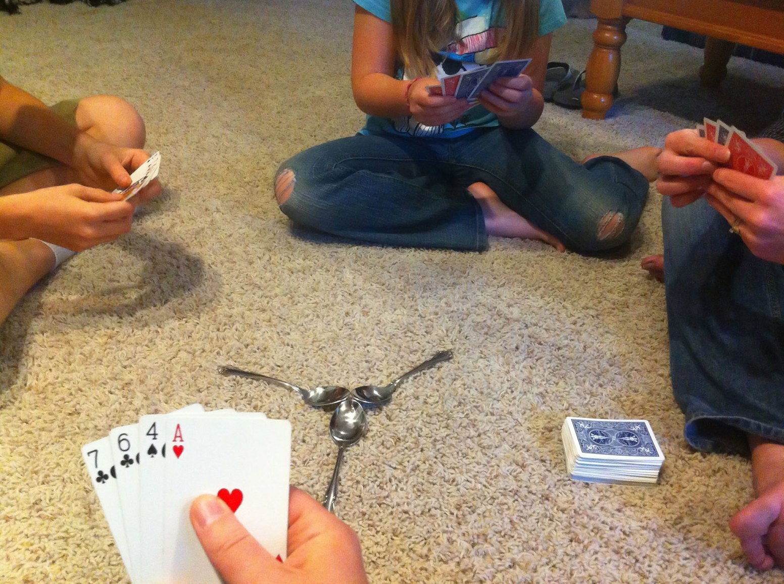 The beginning of a round of Spoons. Each player has four cards and the dealer (on the right) has the deck. In the middle are one less spoons then players.